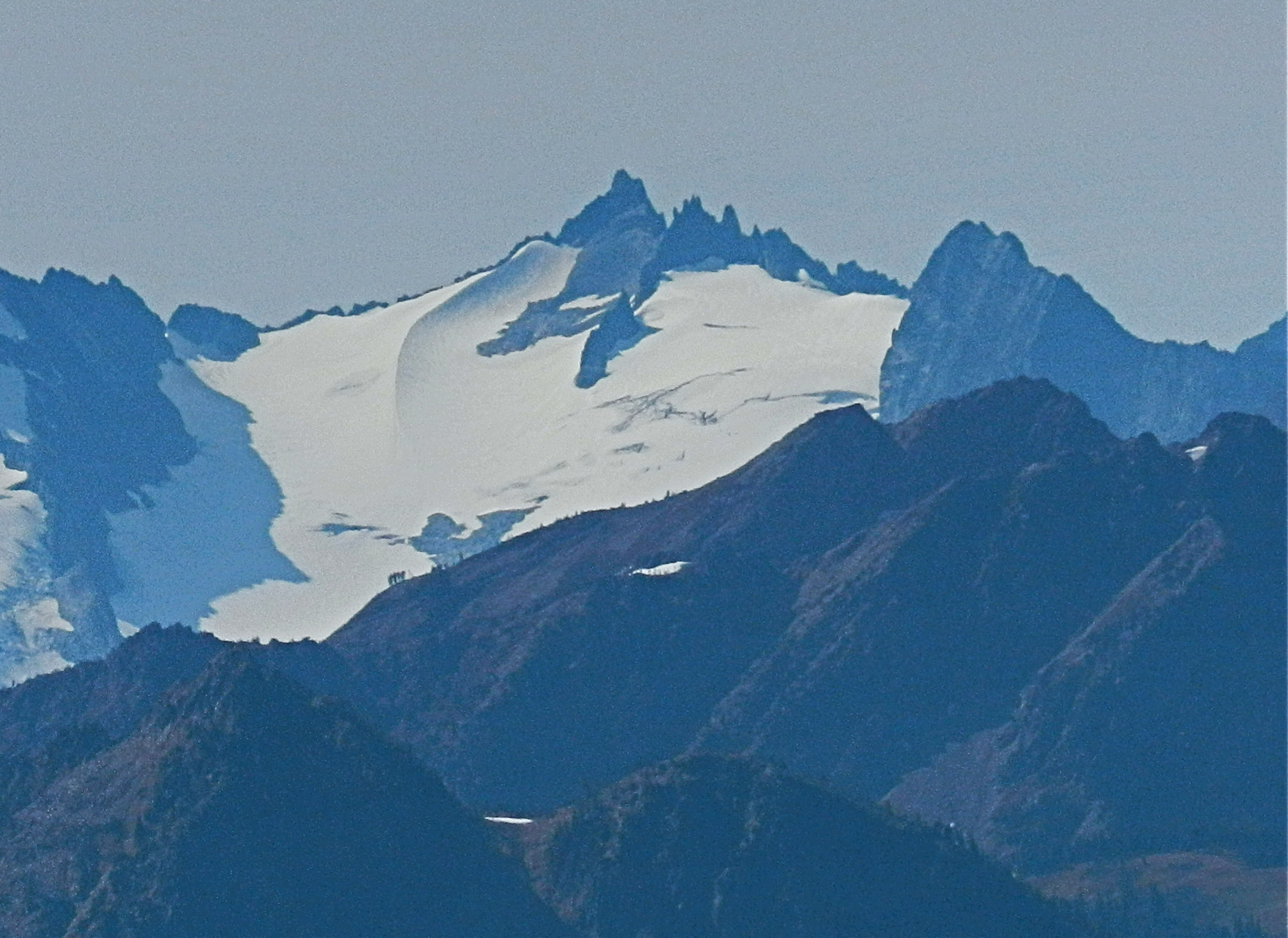 Spire Point seen with long lens from Maple Pass loop trail.